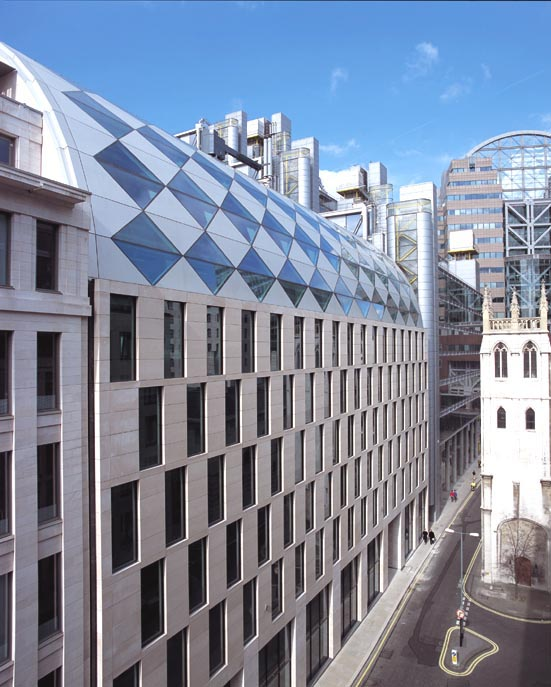 Headquarters of Friends Provident 100 Wood Street, London, EC2V 7AN Friends Provident have taken over the lease of the ground and first floors of the building from F&C Property Asset management for a 15-year period. Around 65 staff moved to the new building that comprises 2,175 sq m. The Wood Street accommodation was previously the ISIS headquarters building and became surplus to requirements following the merger with F&C in October 2004.